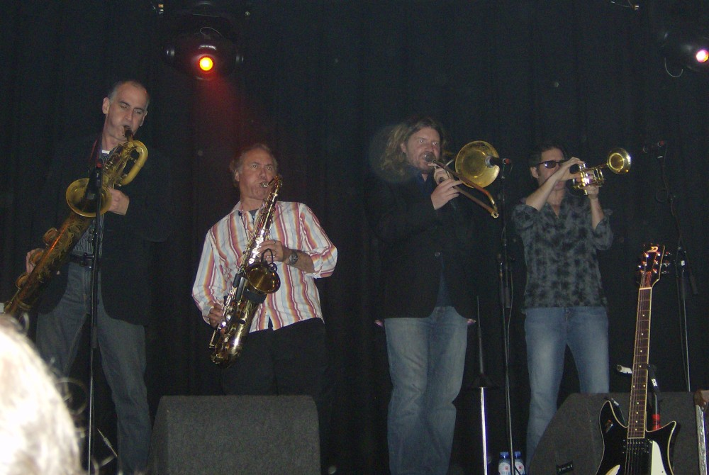 The horn section of the Asbury Jukes, live in Amsterdam, October 5, 2007